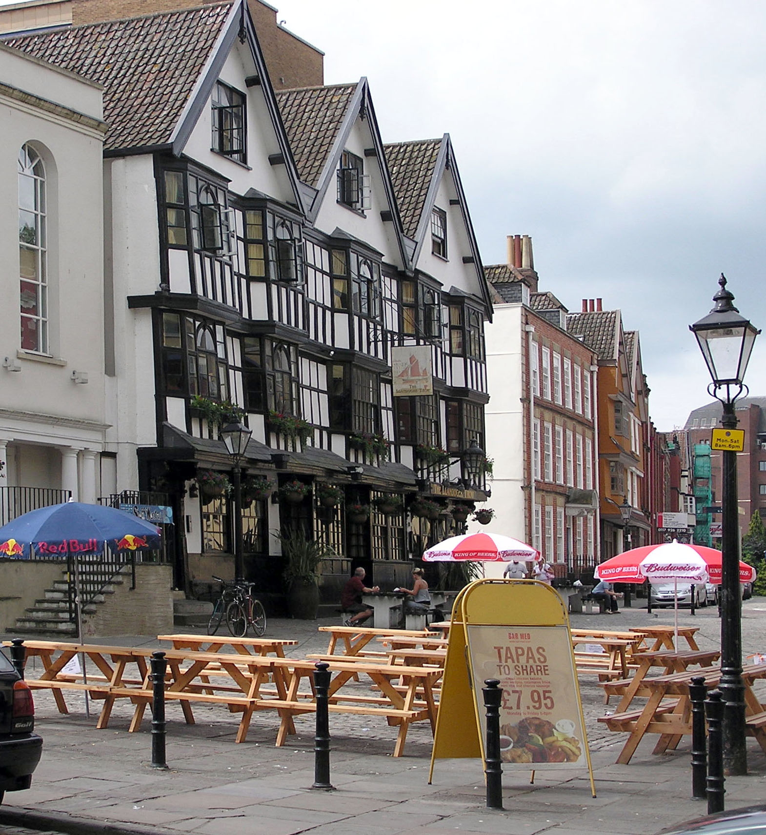 Llandoger Trow, Bristol, England.